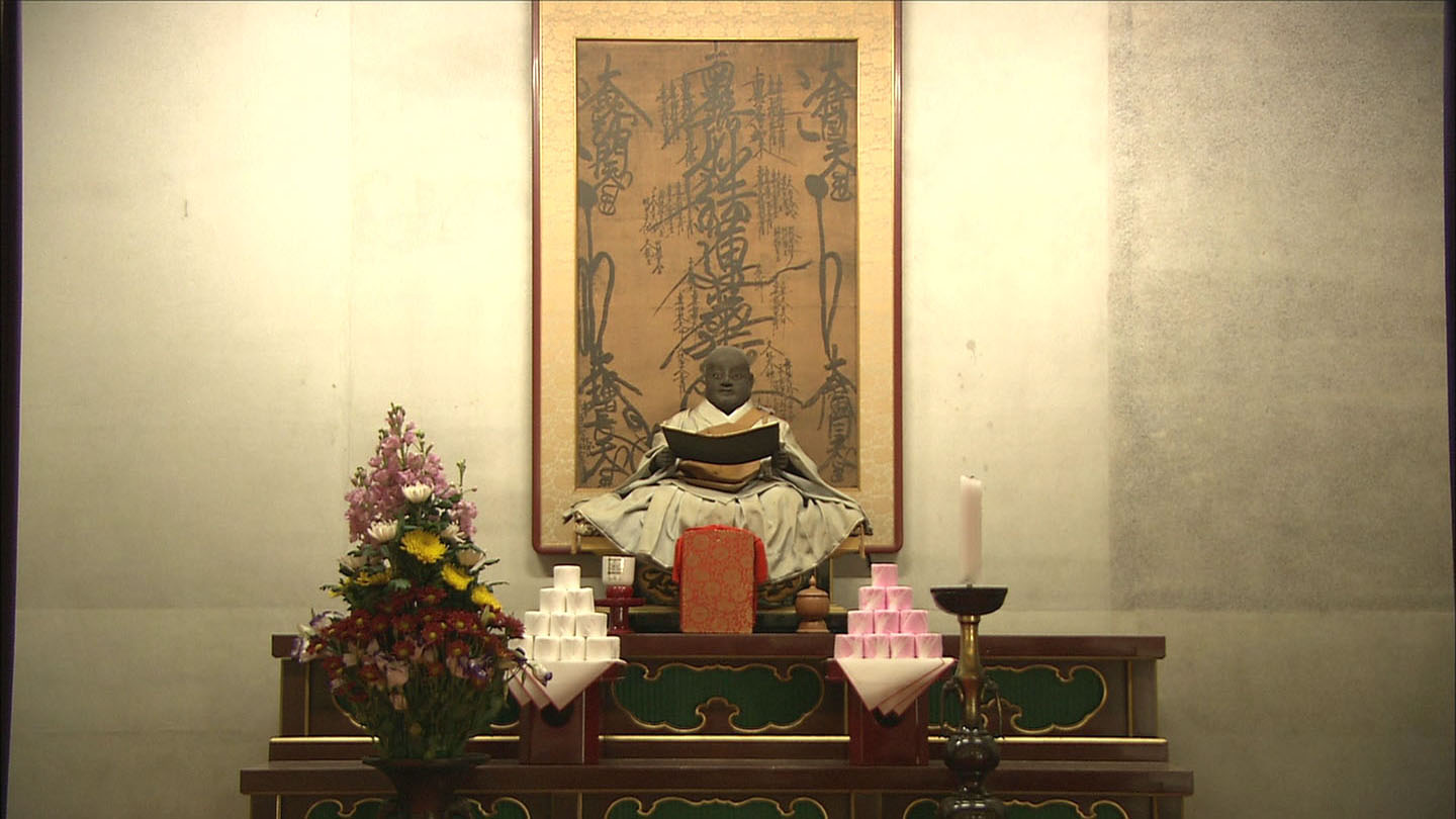 Gohonzon enshrined at the auditorium of Minobusan University (Minobusan Daigaku).